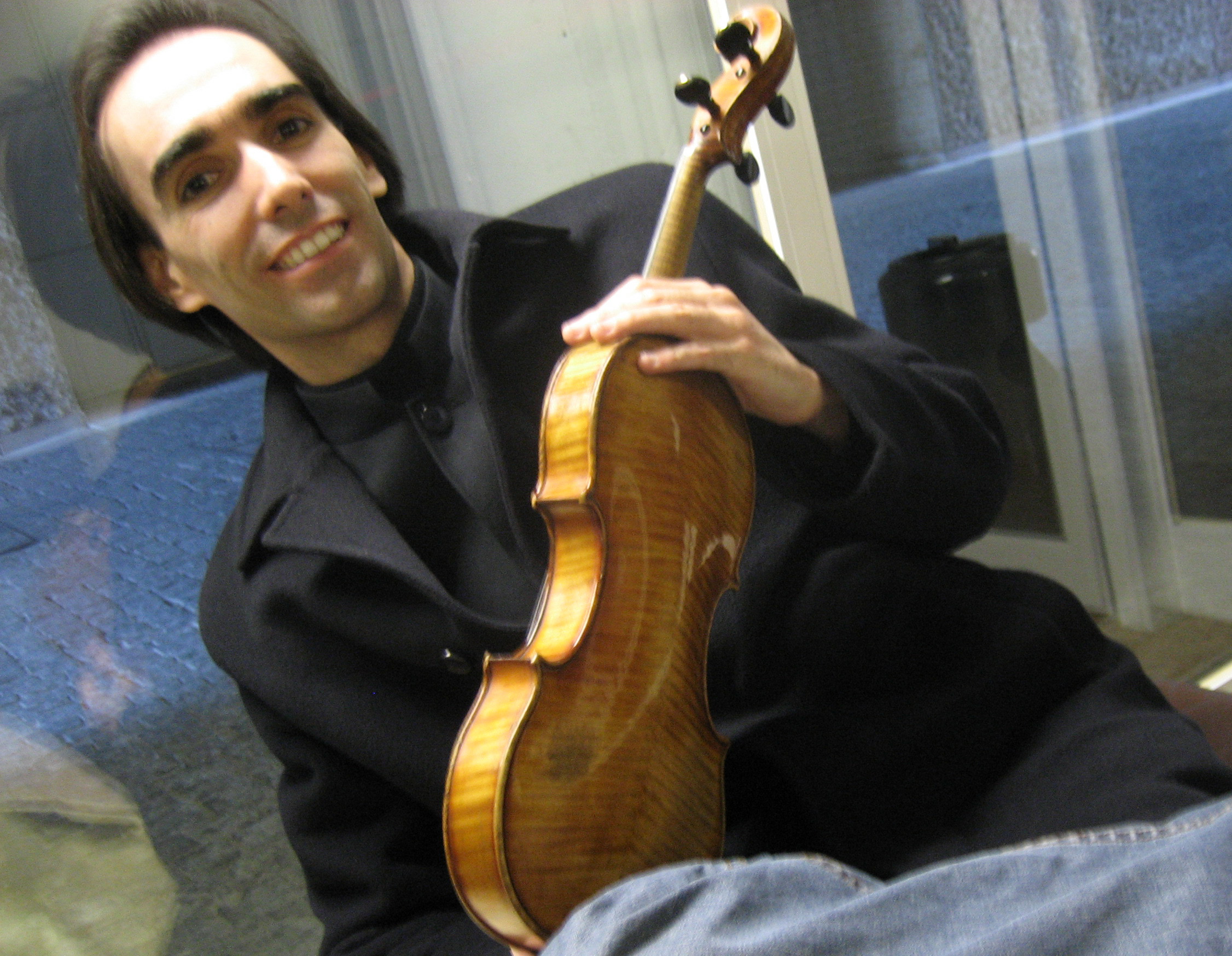 Carlos Damas Fine Portuguese violinist